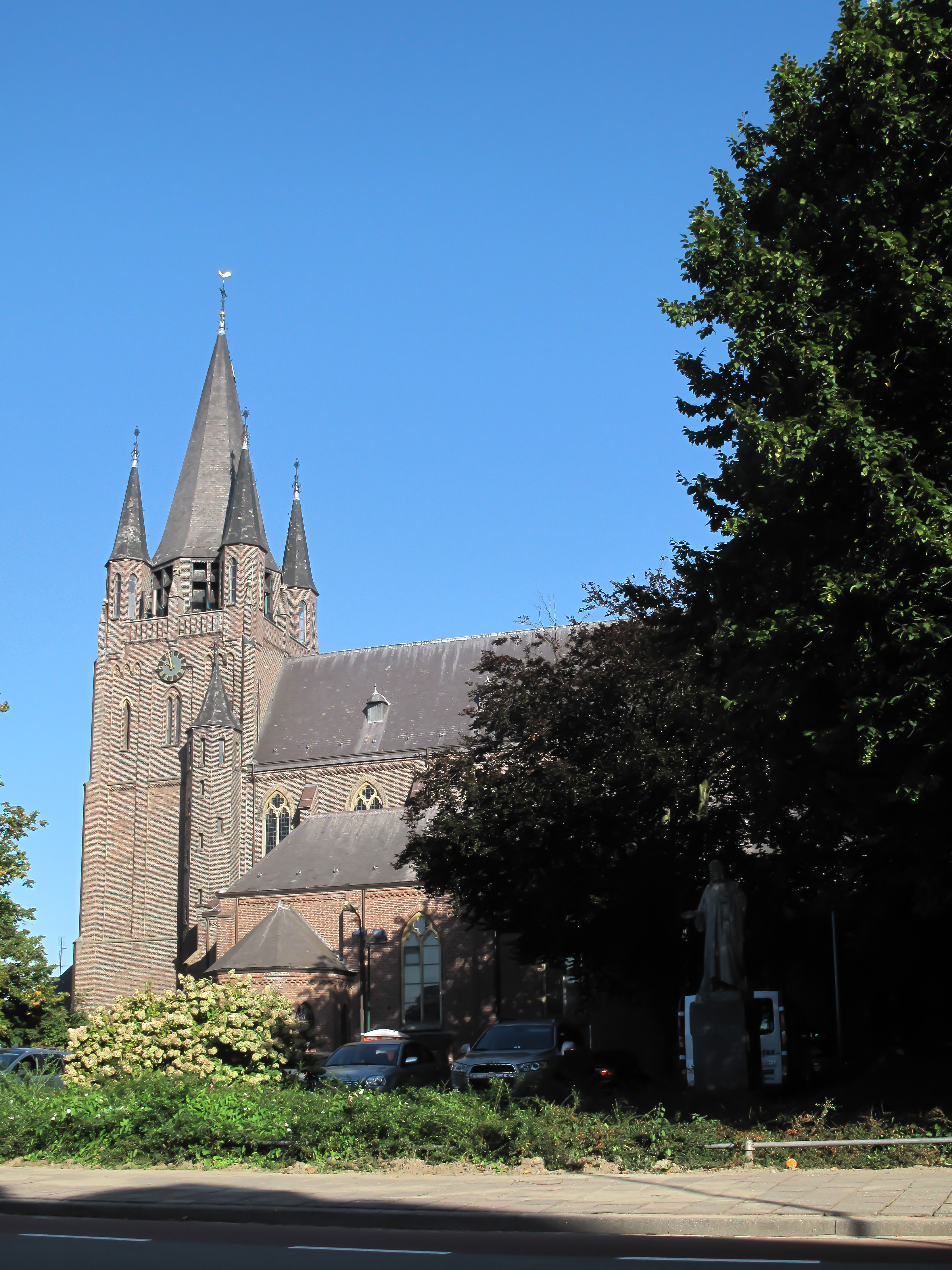 Zeelst, church: Sint Willibrorduskerk